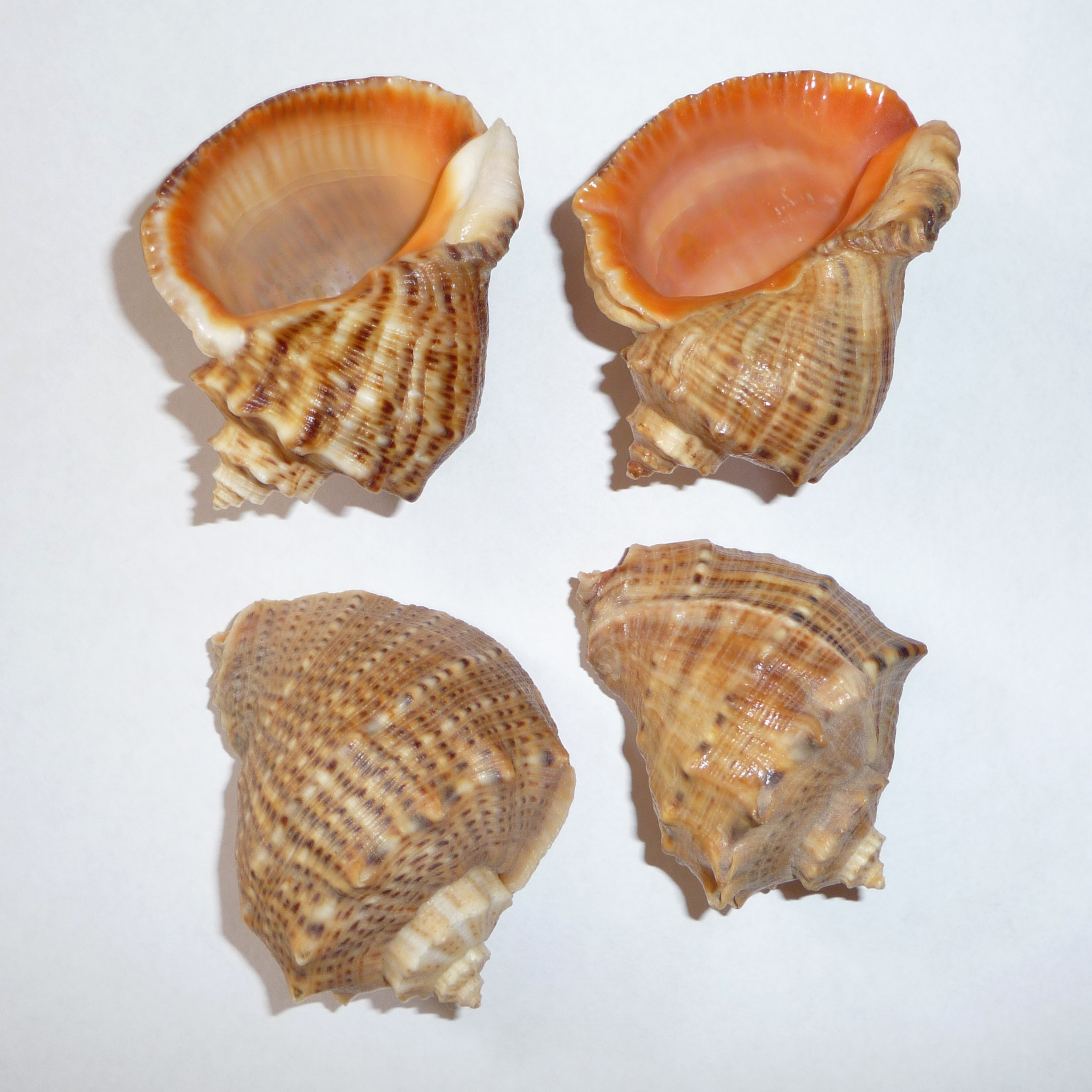 Veined rapa whelk (Rapana venosa) from the Black Sea. Shell color variations.